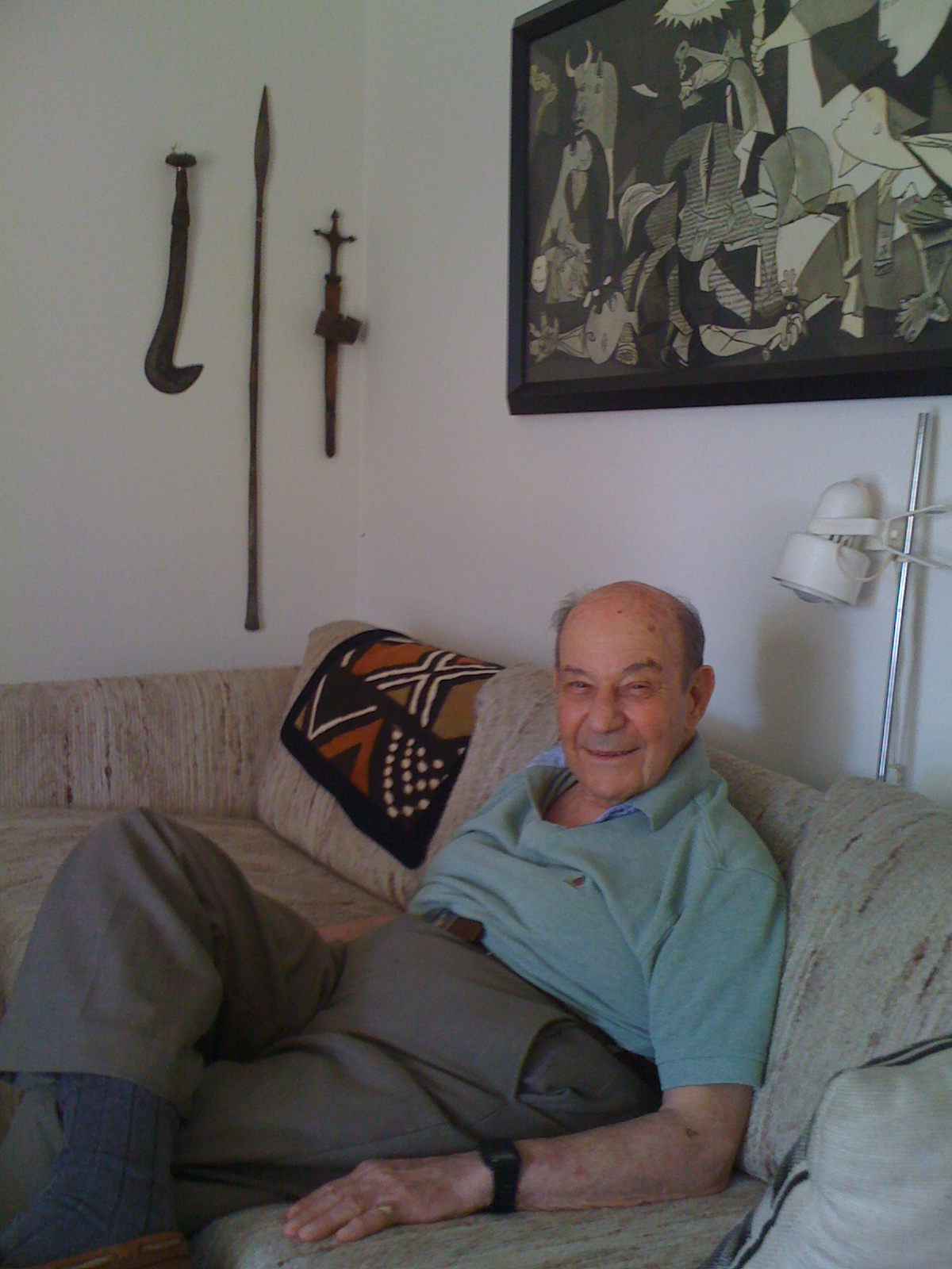 Dick Fisch in his home in Menlo Park, California